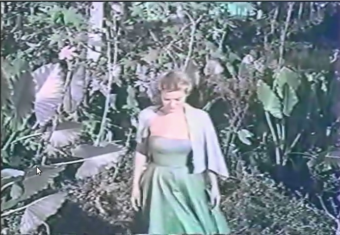 Actress Betsy Jones-Moreland in Last Woman on Earth (Public Domain Film)